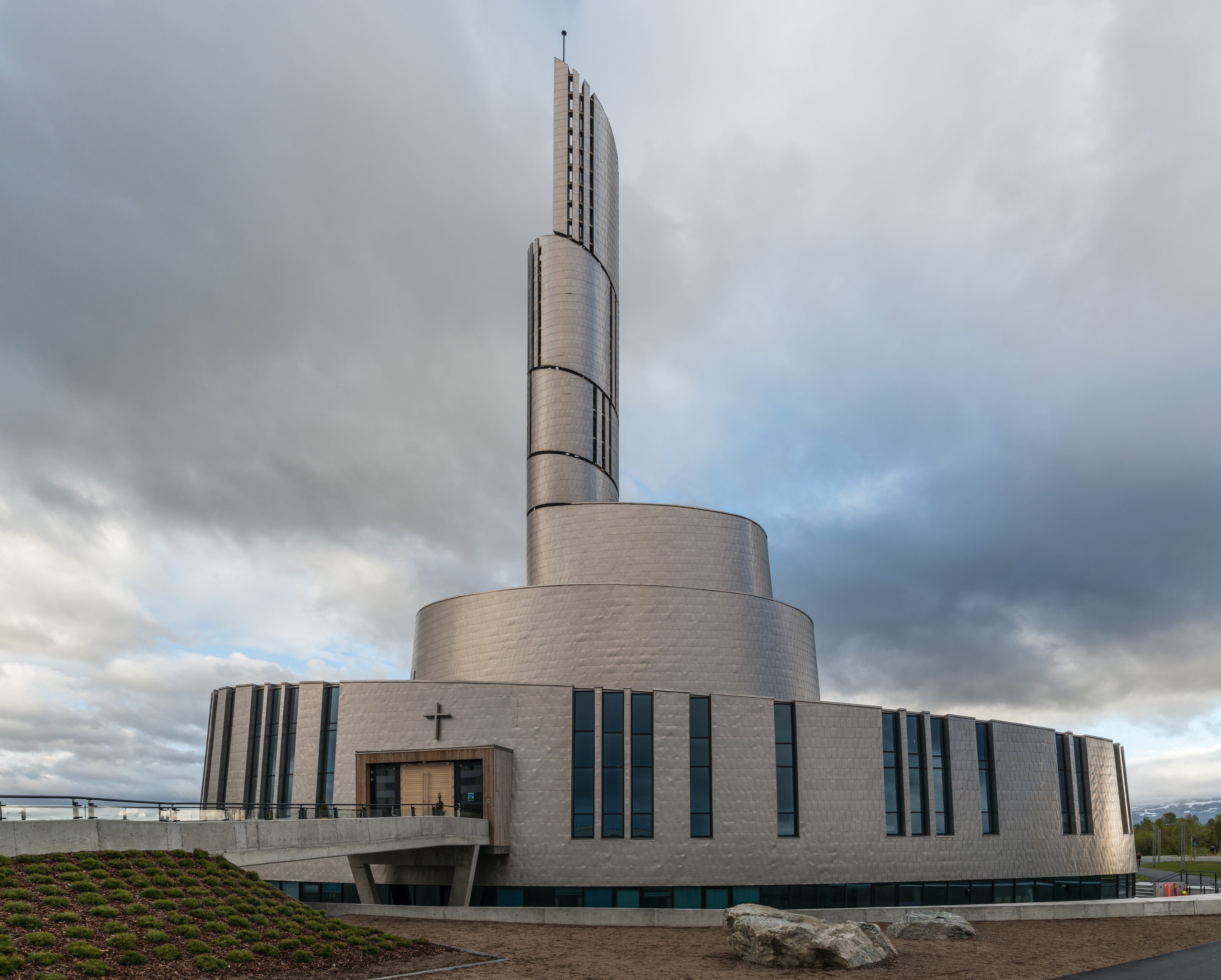 A northeast view of Nordlyskatedralen, Alta